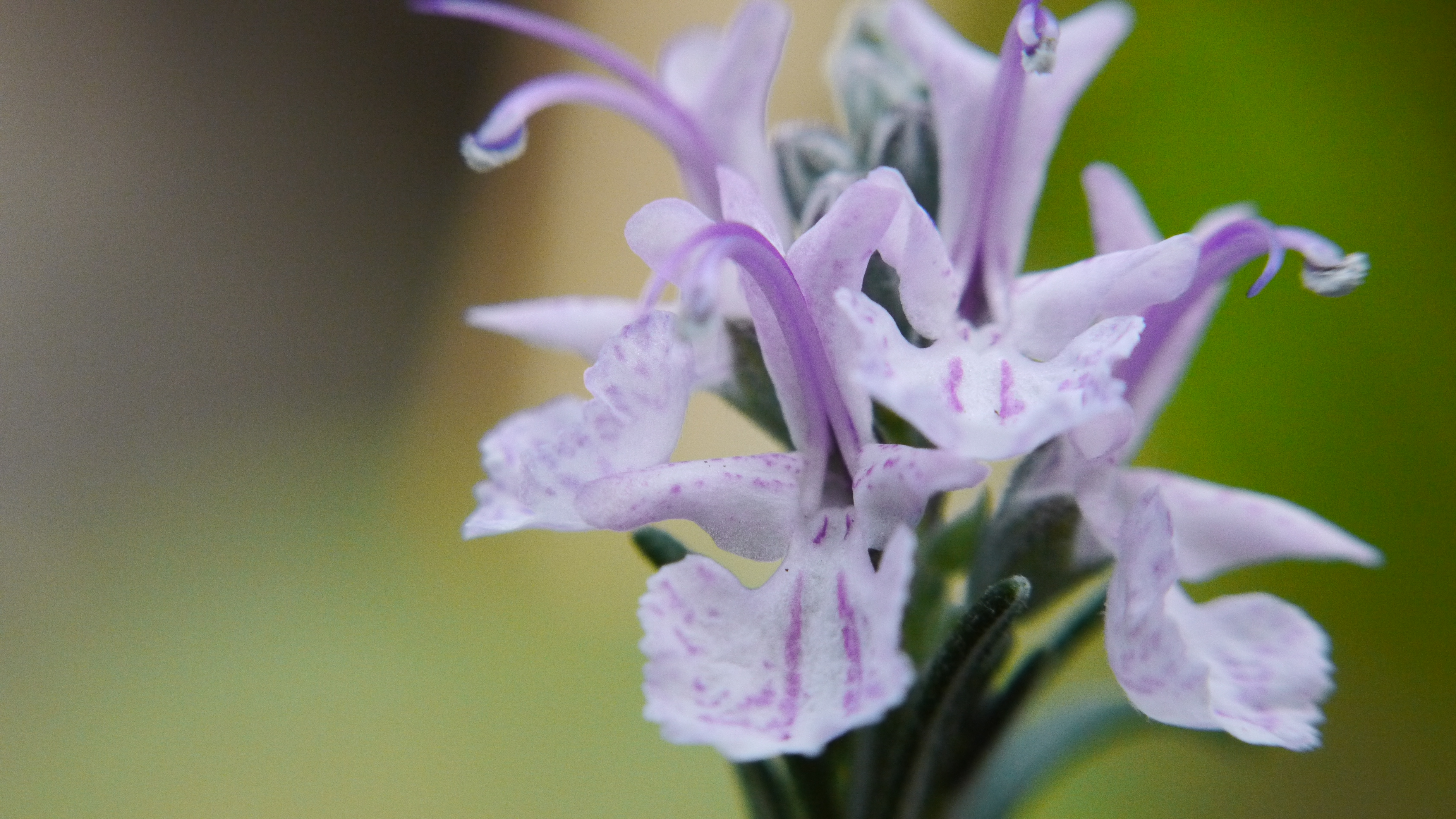 Rosmarinus officinalis, flower of the Rosemary, Chile